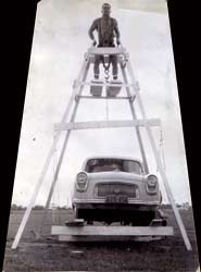 In 1957 Otto Acron official lifted car off the ground. Total weight 3,000lb unofficially He had lifted 4,000lb of sand filled bags in training.